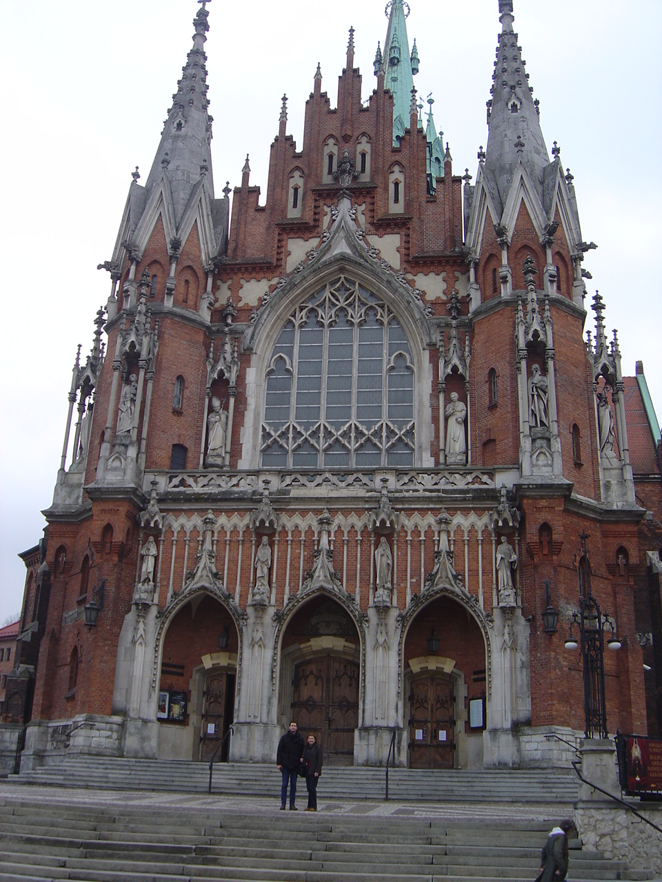 St. Joseph's Church, Podgórze